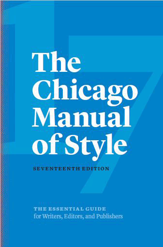 Cover of the 17th edition of The Chicago Manual of Style, describing it as a "The Essential Guide for Writers, Editors, and Publishers."